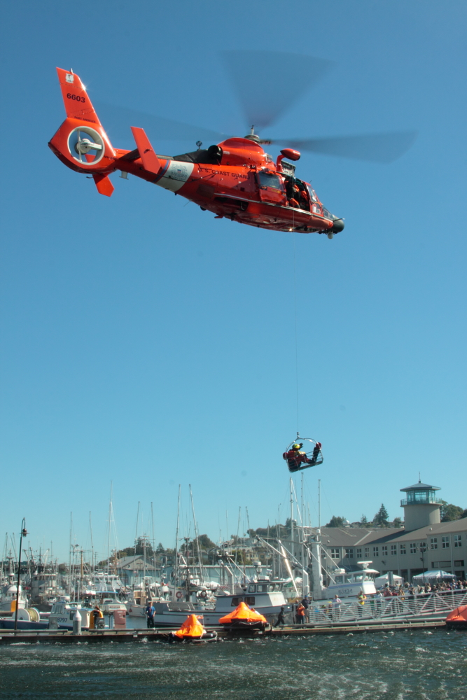 Aerospatiale HH-65C Dolphin from USCG Air Station Port Angeles performs water rescue demonstration at Fisherman's Memorial event in Seattle, WA. 25-SEP-2010.